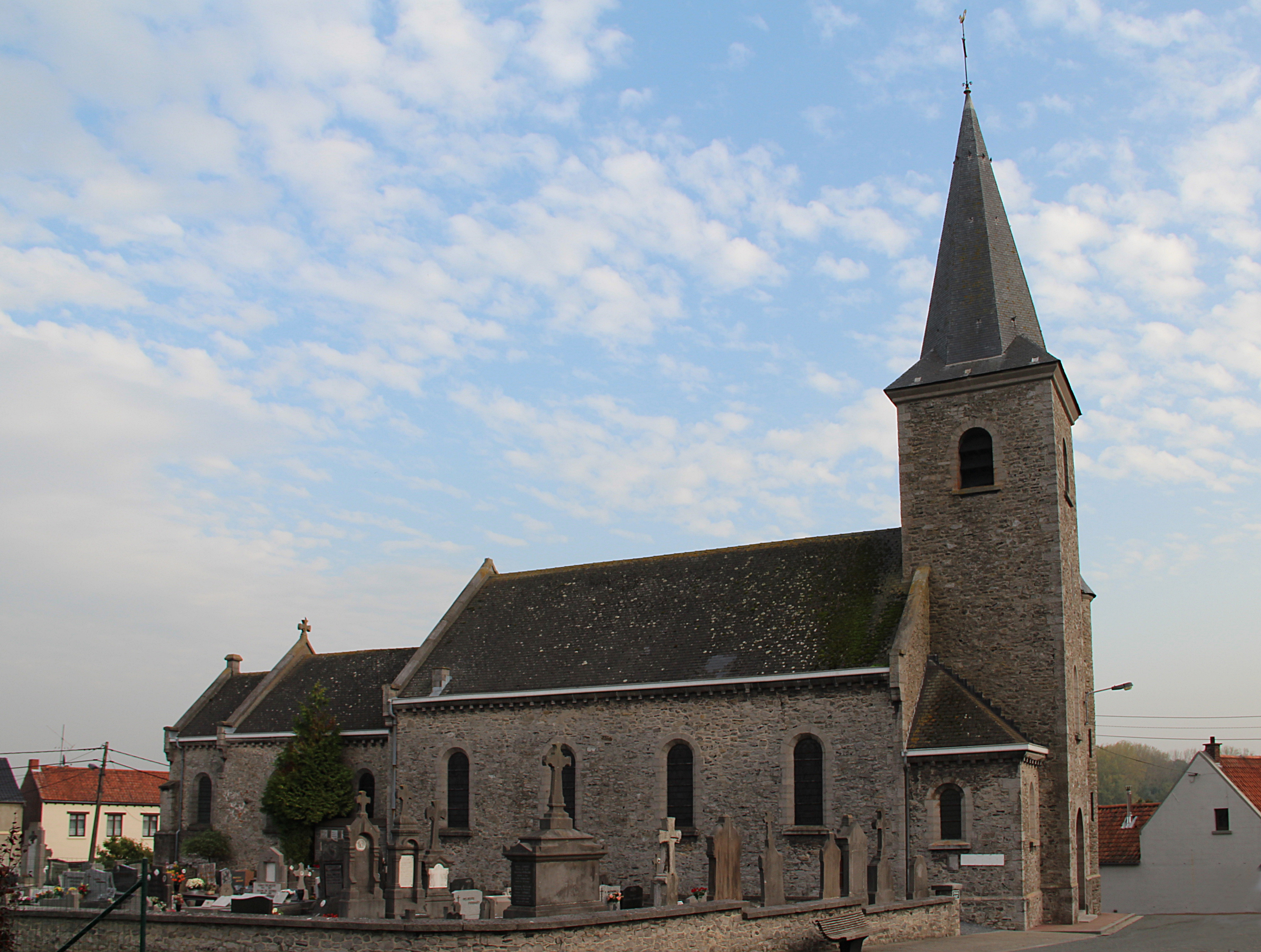 Ere (Belgium), the Saint Amantius' church (Choir and nave of the XIth century).